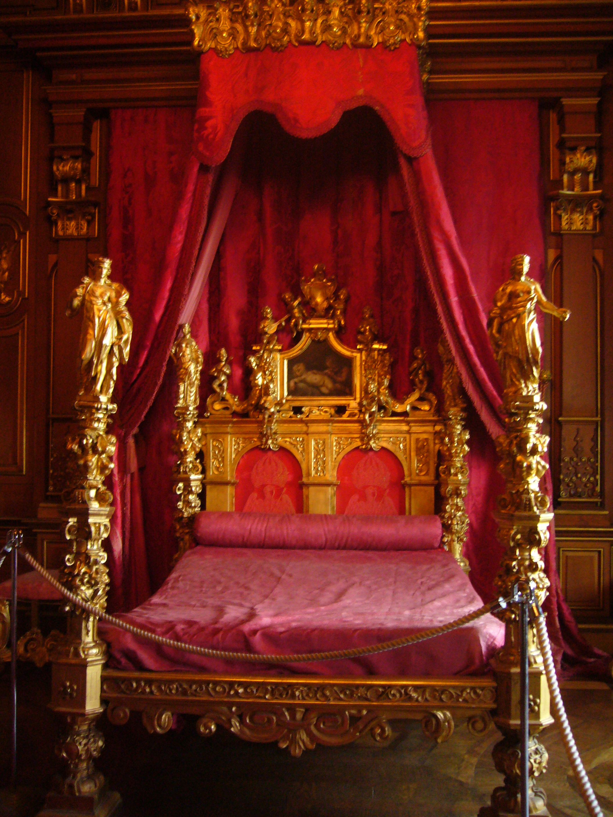 Miramare, Italy, bedroom for Maximilian (he never used it), bed is weddingpresent from the pope